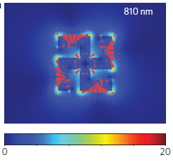 the introduction